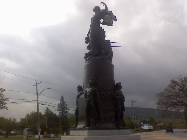 Ticonderoga Memorial